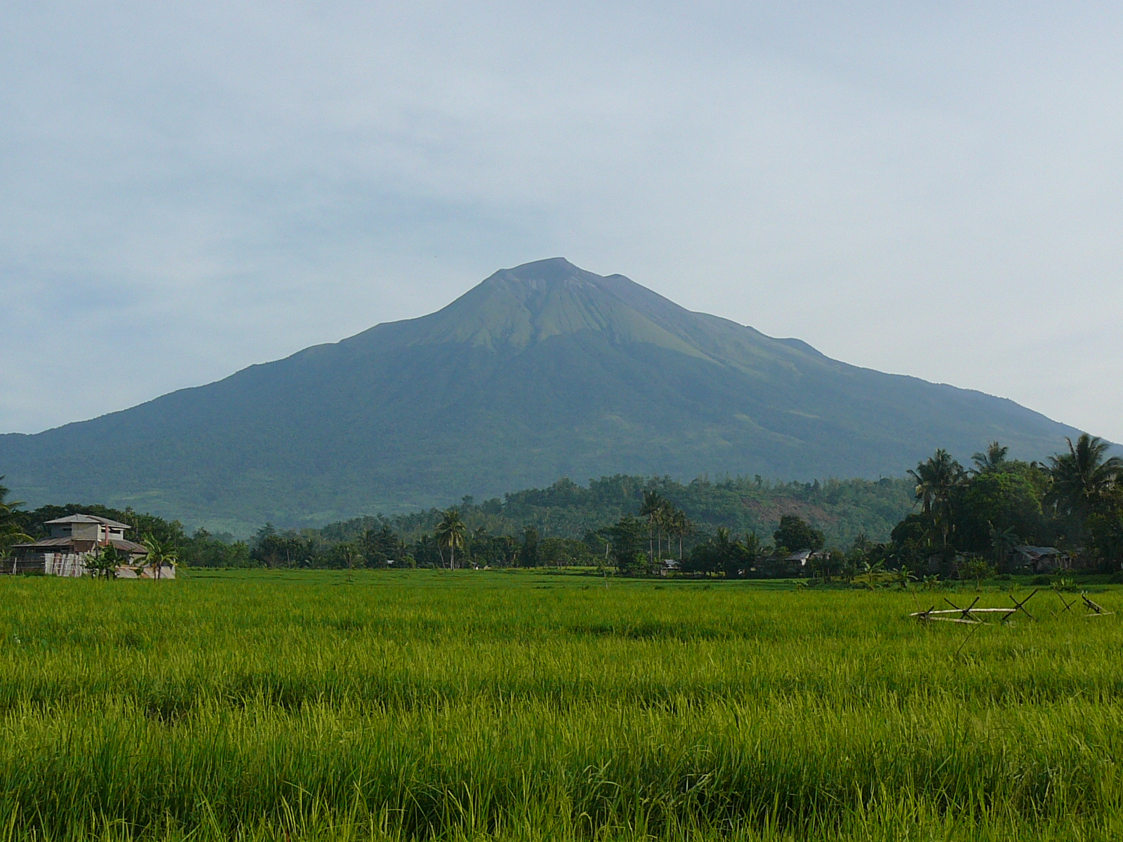 The Vulcano Mount Canlaon (Negros Occidental, Philippines) in September 2009